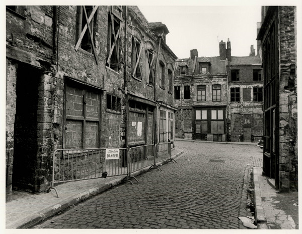 Lille, Rue des Vieux Murs et Place aux Oignons date : 1976 [1976] dimensions : 24 x 30 cm technique : Photographie. Epreuve positive en noir et blanc sur papier baryté